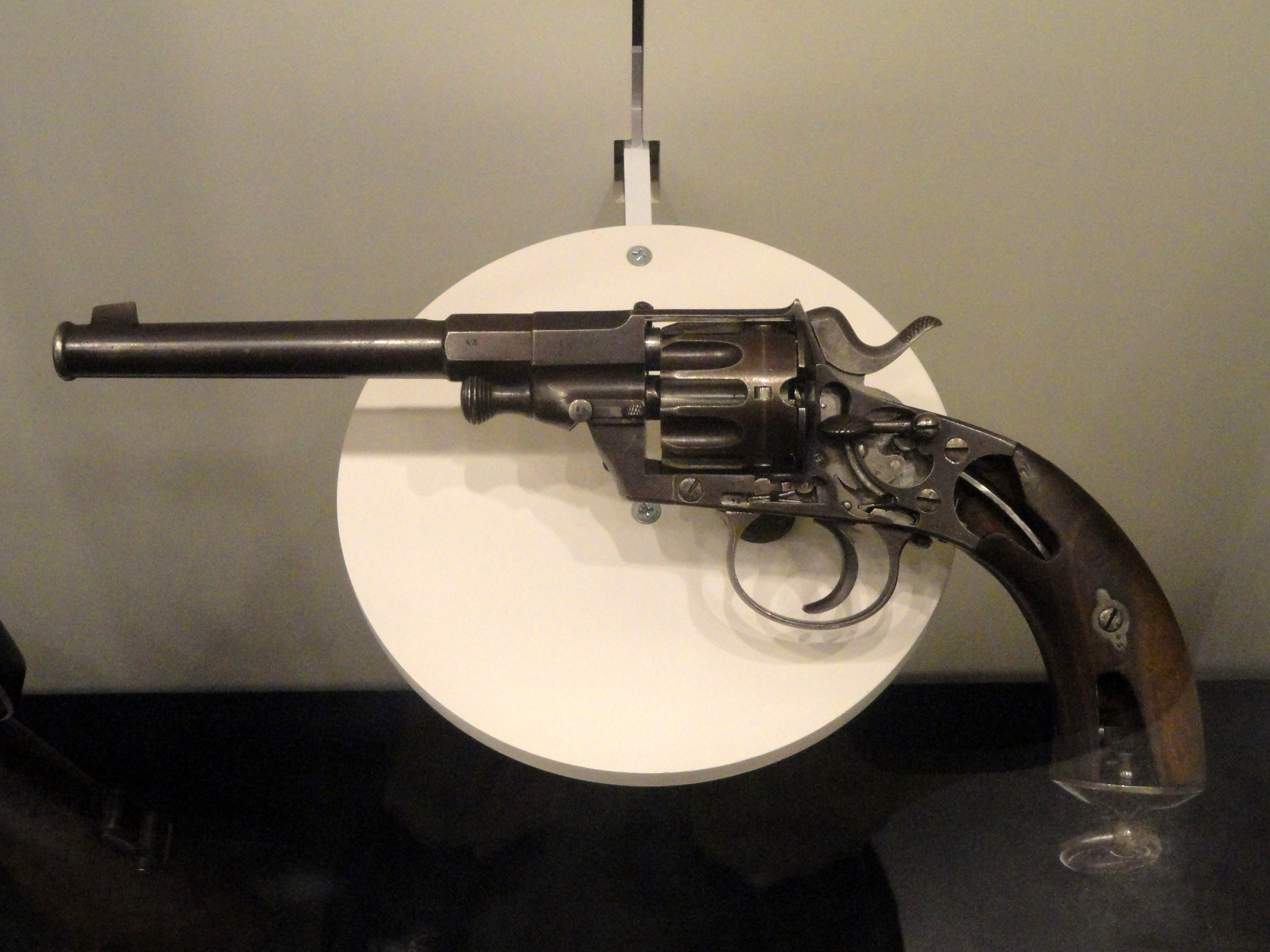 Handgun exhibited in the National World War I Museum at the Liberty Memorial, 100 W. 26th Street, Kansas City, Missouri, USA.